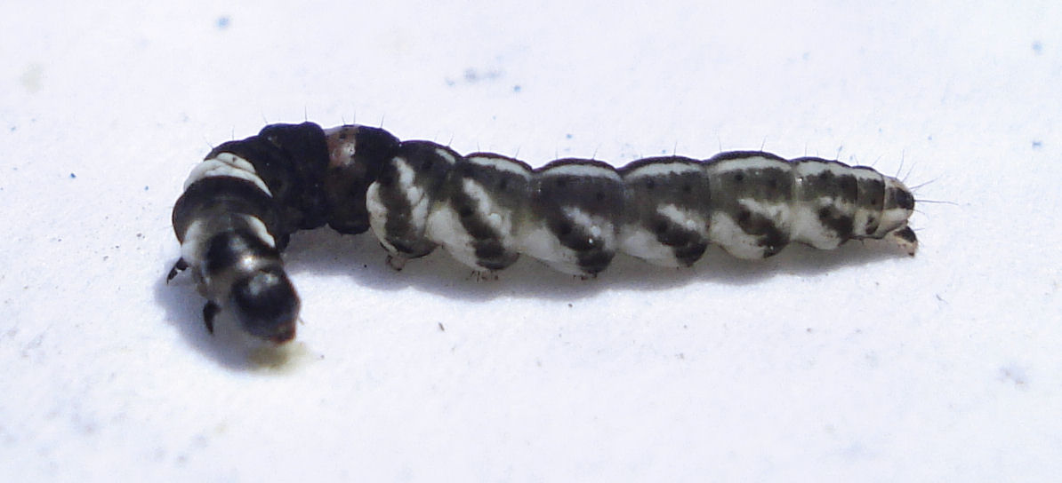 Helcystogramma rufescens larva, Lincolnshire